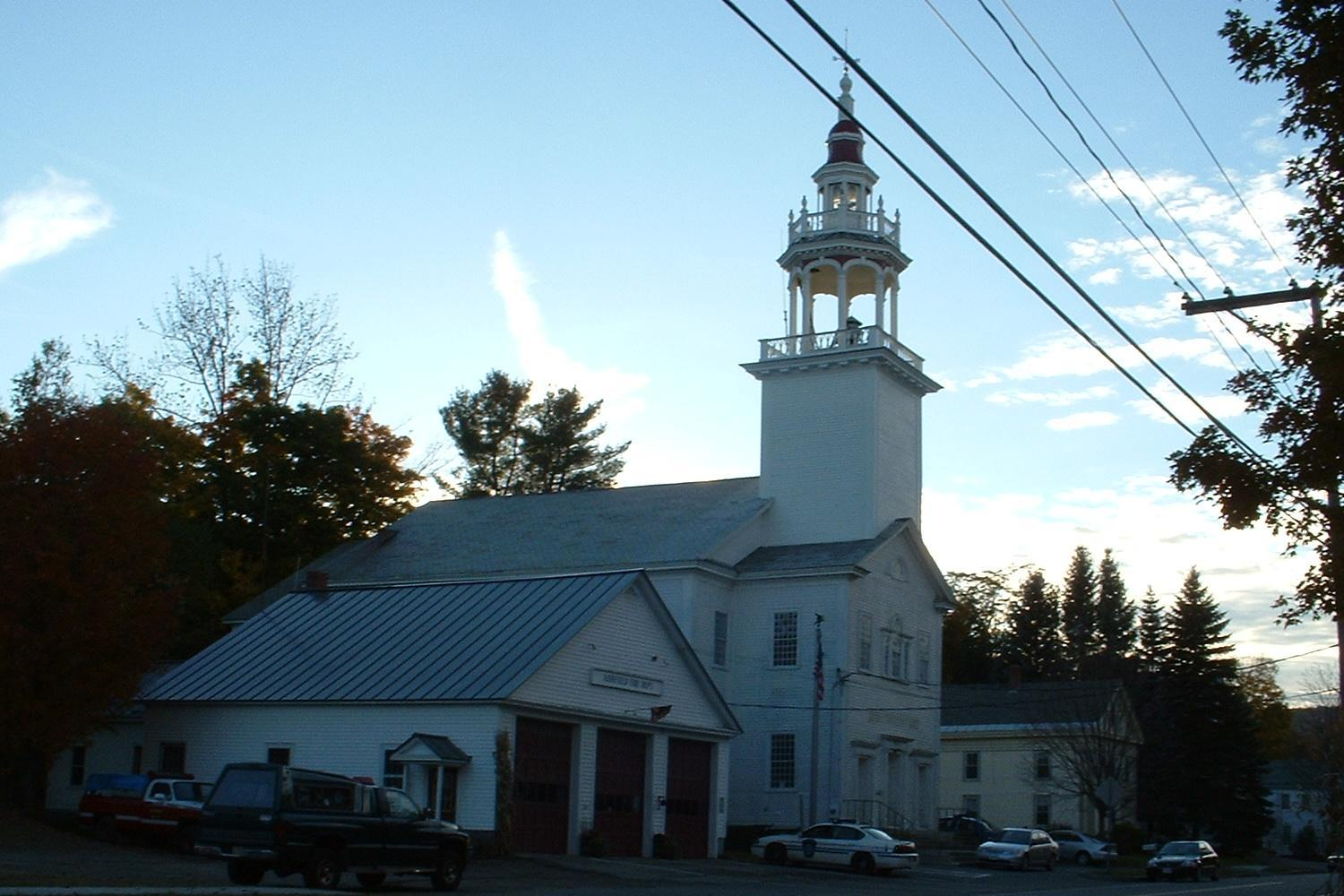 The Ashfield Town Hall, with the fire department and police station on either side, in Ashfield, Massachusetts Ashfield Town Hall, Main St, Ashfield, MA